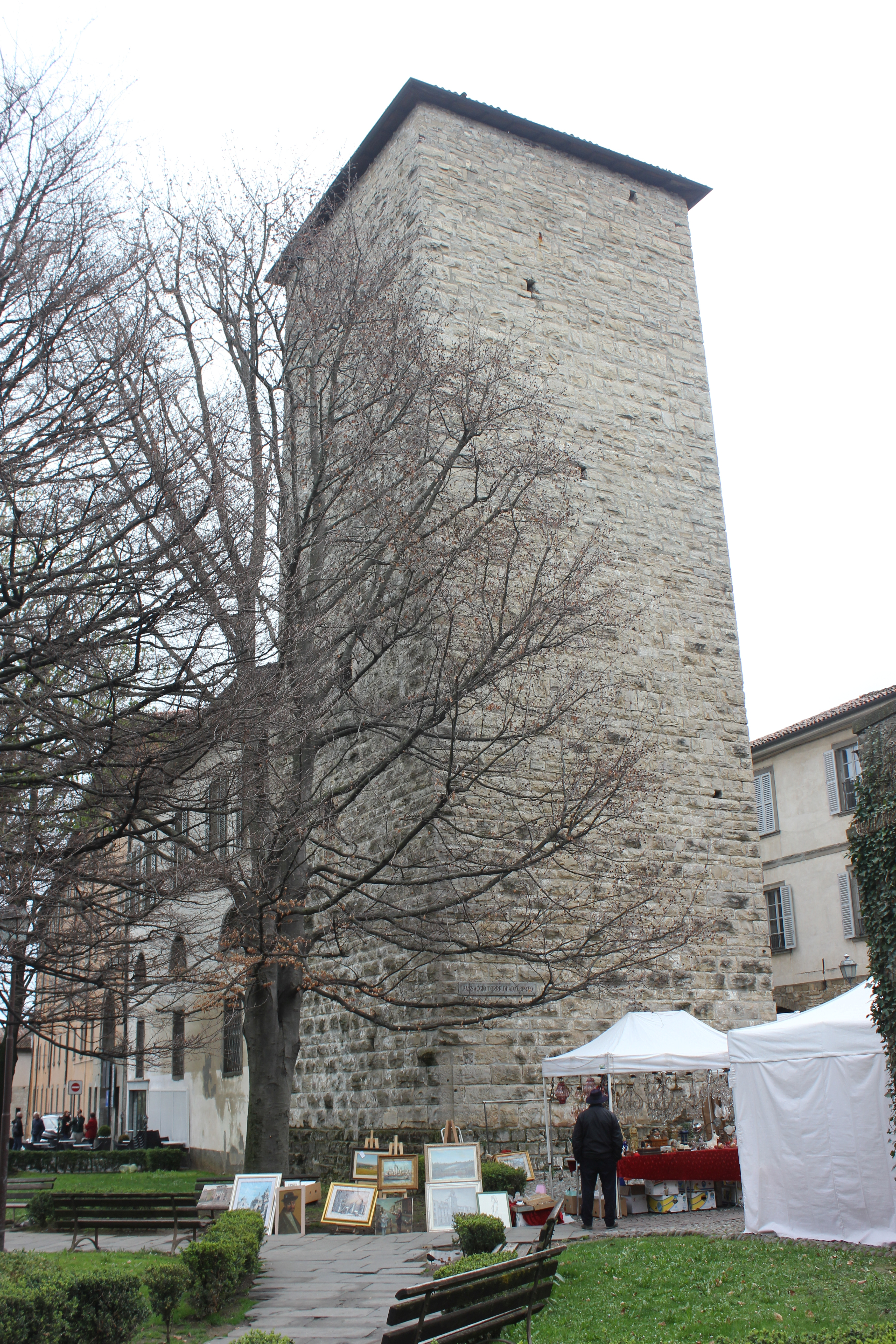 Bergamo - Adalbert's Tower